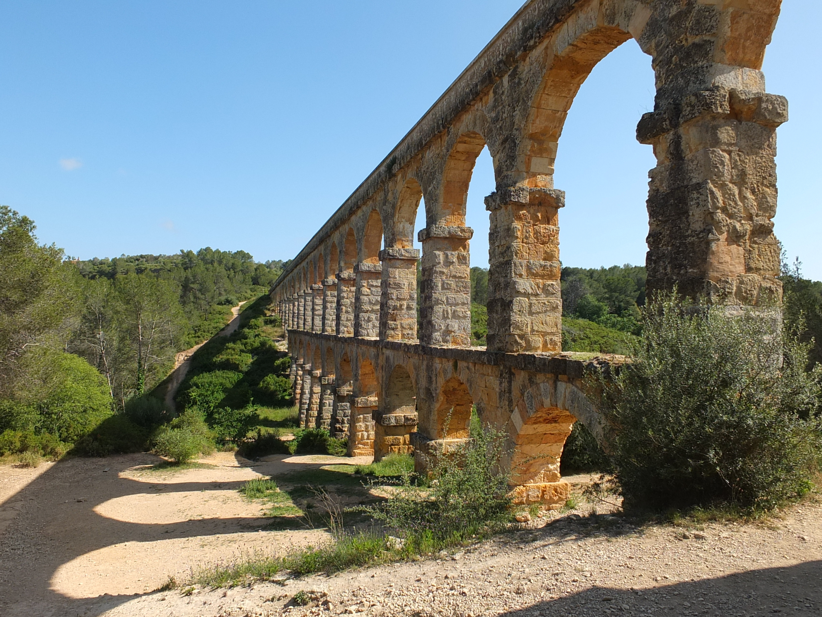 Les Ferreres Aqueduct, also called El Puente del Diablo, which spans a valley about 4 kilometres (2 miles) north of the city of Tarragona. It is 217 m (712 ft) in length, and the loftiest arches, of which there are two tiers, are 26 m (85 ft) high.